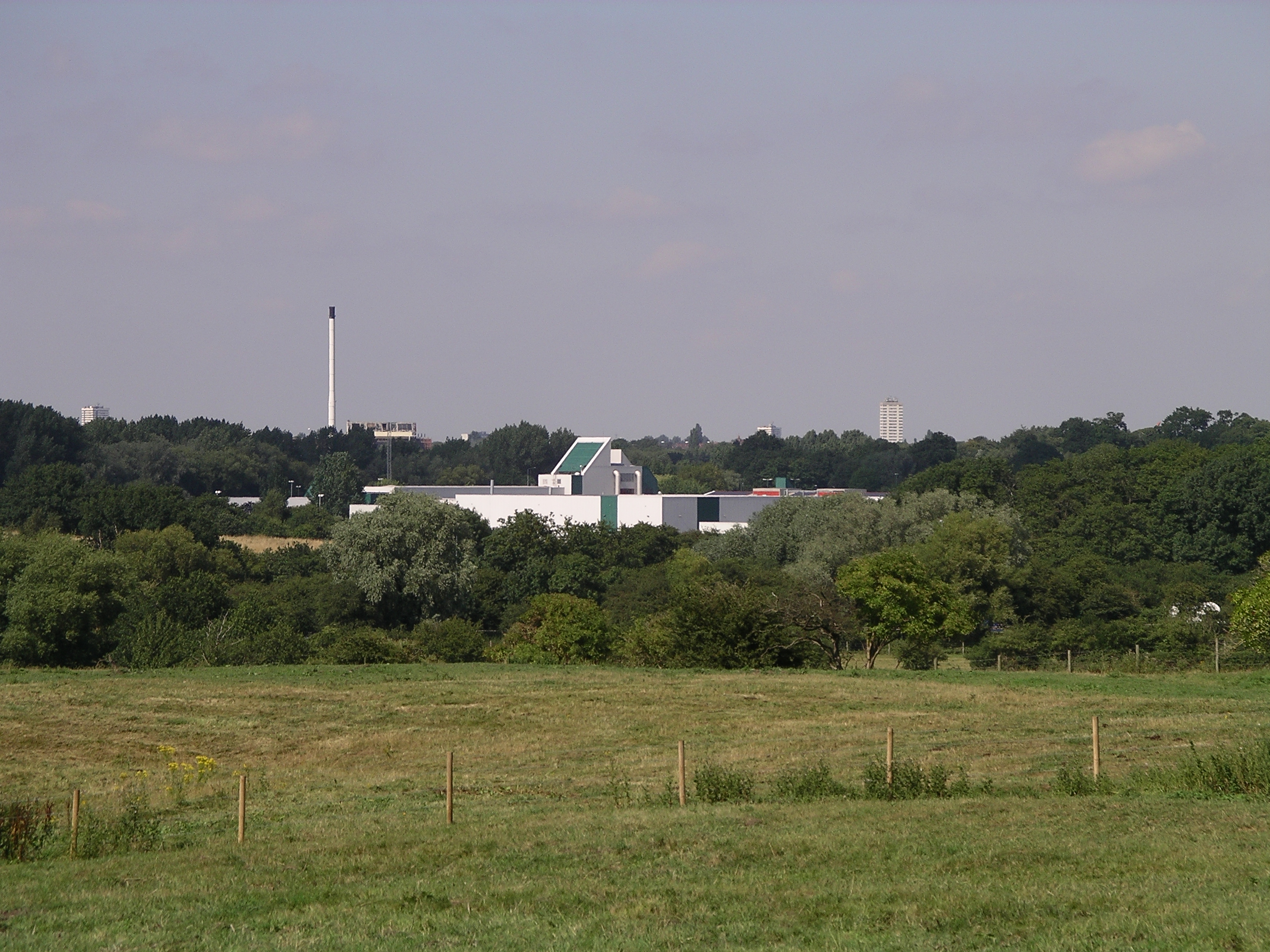 Photo of the Whitley plant in Whitley, Coventry, England. Photograph taken with a zoom lens from near to Baginton, Warwickshire.